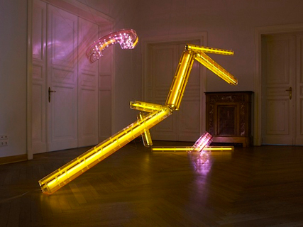 Installation "Shine A Light", 2013 showroom Manske, Berlin